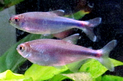 Boehlkea fredcochui (Cochu's blue tetra), male (upper) and female (lower)